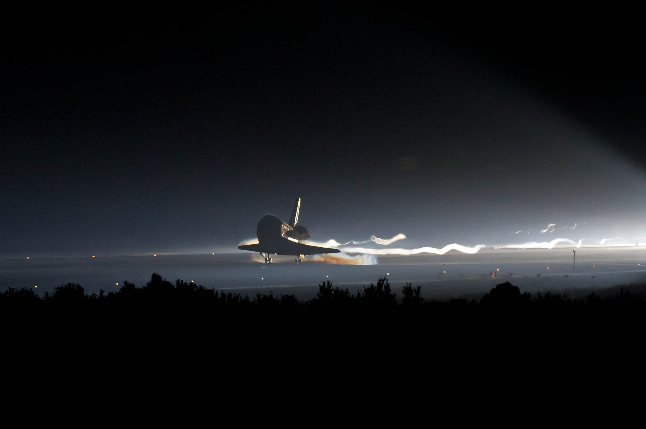 Space Shuttle Atlantis (STS-135) touches down at NASA's Kennedy Space Center Shuttle Landing Facility (SLF), completing its 13-day mission to the International Space Station (ISS) and the final flight of the Space Shuttle Program, early Thursday morning, July 21, 2011, in Cape Canaveral, Florida.